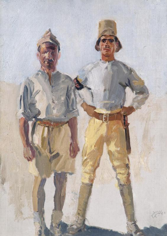 Military Policemen in Palestine, c.1918 image: Full length depictions of two Arabic military policemen, both wearing hats. The man on the right appears to have a Sergeant's insignia on his left arm, a Military Police armband on his right arm and wears a white shirt and sandy coloured trousers and puttees. The man on the right wears a white shirt and sandy coloured shorts.